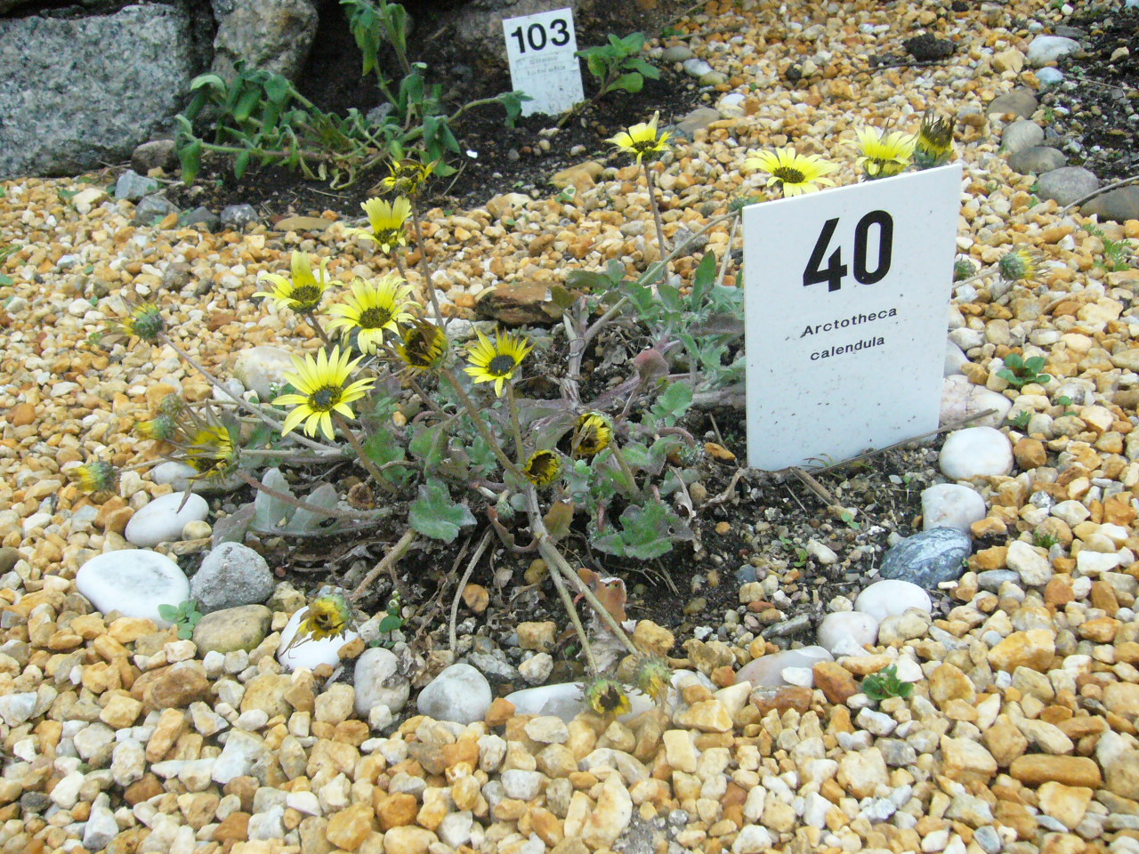 Arctotheca calendula in the botanic garden in Aquarium Finisterrae, Corunna, Galicia, Spain.